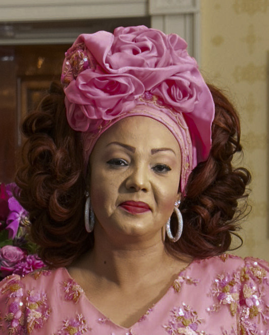 President Barack Obama and First Lady Michelle Obama greet His Excellency Paul Biya, President of the Republic of Cameroon, and Mrs. Chantal Biya, in the Blue Room during a U.S.-Africa Leaders Summit dinner at the White House, Aug. 5, 2014. [Official White House Photo by Amanda Lucidon] This official White House photograph is in the public domain from a copyright perspective, so while restrictions such as personality or privacy rights may apply, in general, manipulations are allowed.